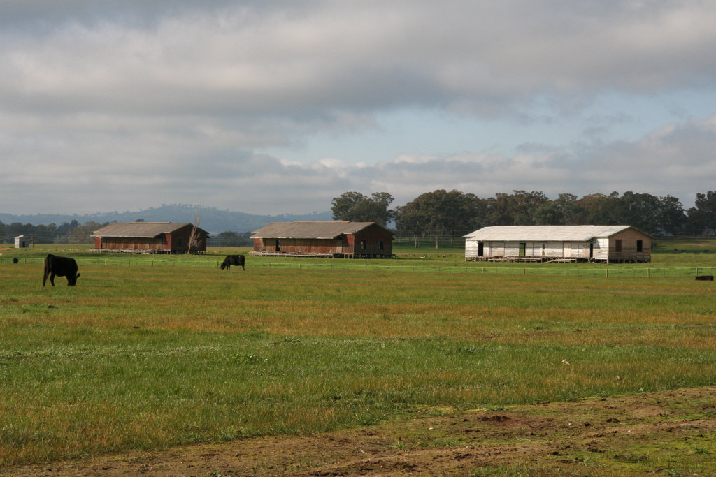 Dysart Siding, just south of Seymour. Three sheds were located along a goods platform to serve Puckapunyal and other army camps in the area.